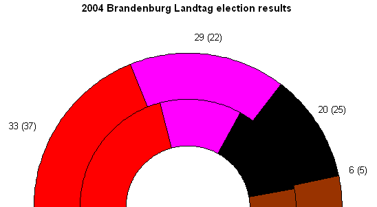 Results of the 2004 Landtag election in Brandenburg SDP in red, CDU in black, PDS in purple, DVU in brownCreated by Willhsmit.